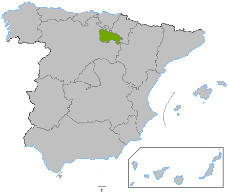 Location of La Rioja, in Spain. Basado en: ProvPont.jpg Source: Designed by Satesclop. Original picture, designed by Sobreira.